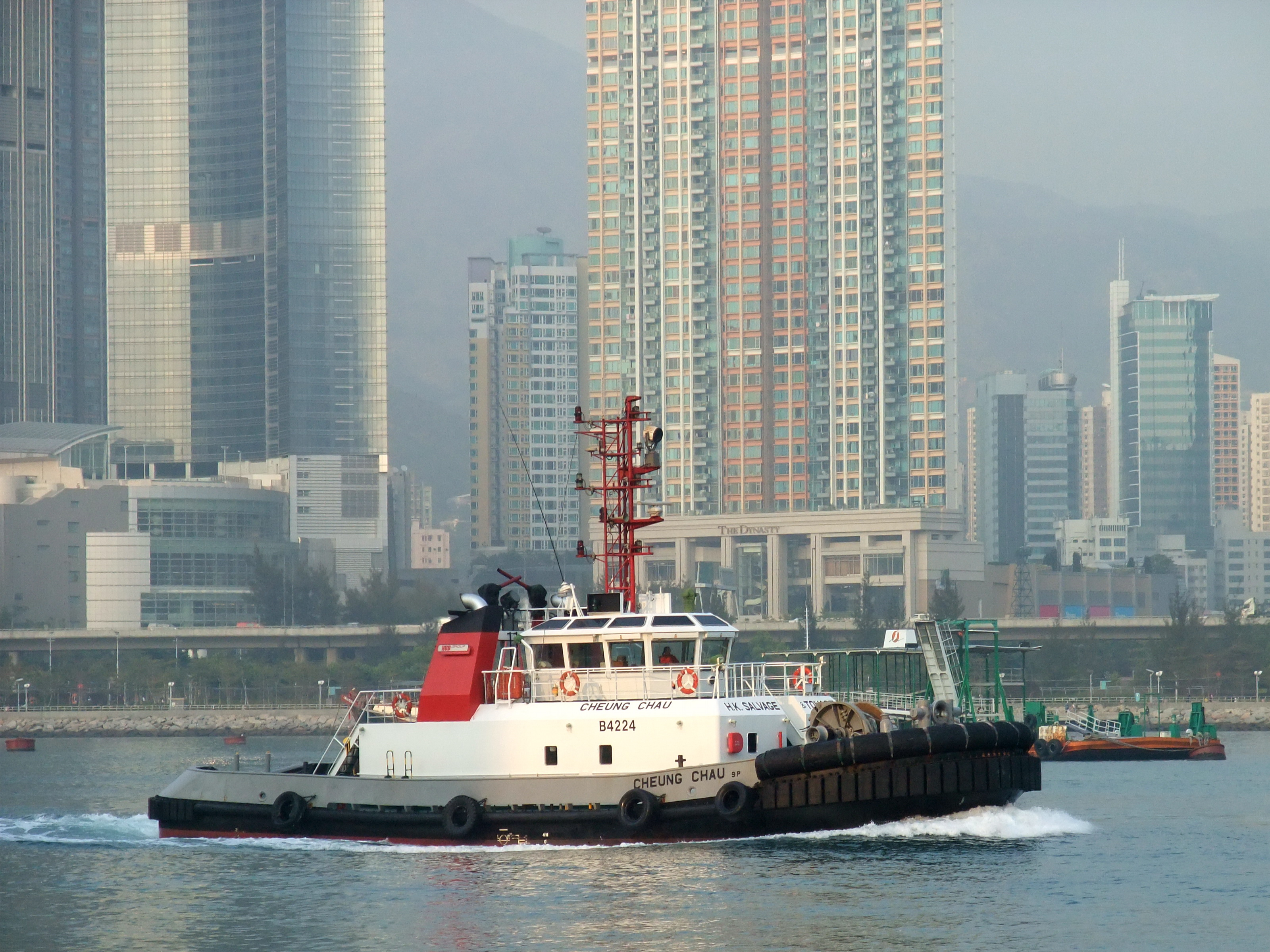 Tugboat "Cheung Chau" operated by the Hongkong Salvage & Towage.